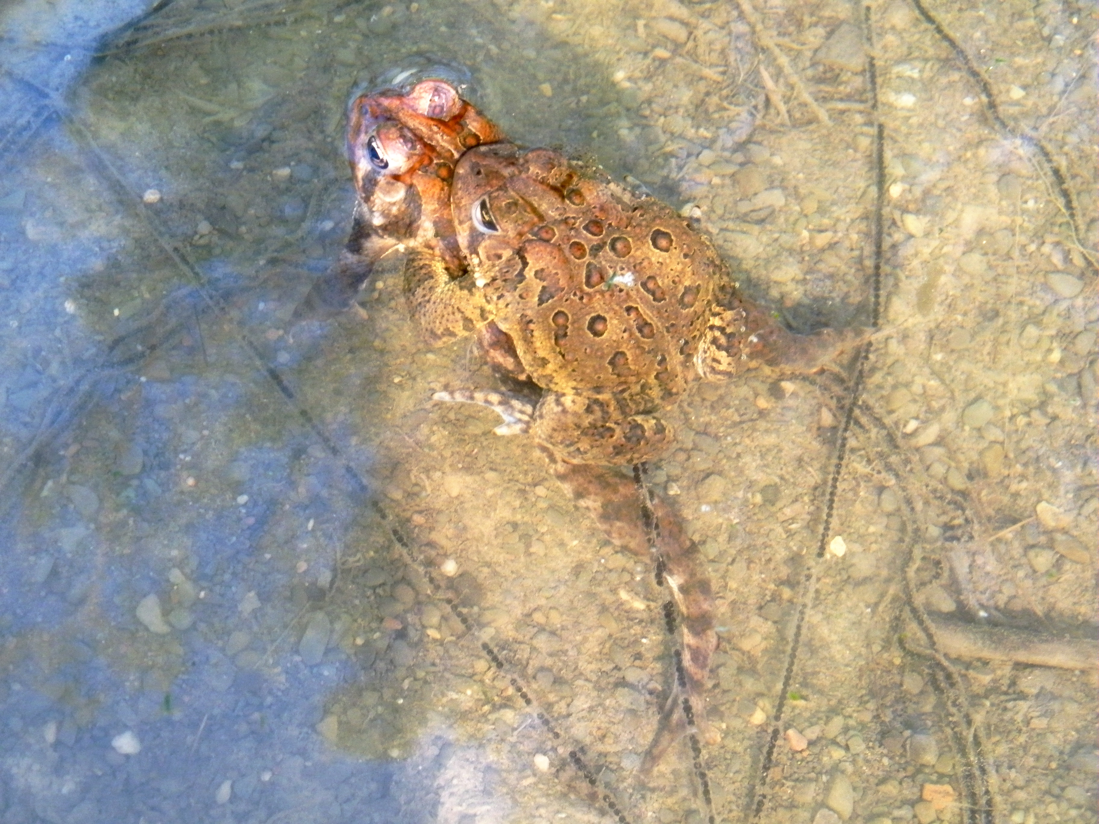 A male and female common toad in Amplexus. The male is on top of the female. The Fertilization of the eggs of toads are external. The female releases her eggs, which the male frog covers with a sperm solution. The eggs then swell and develop a protective coating.